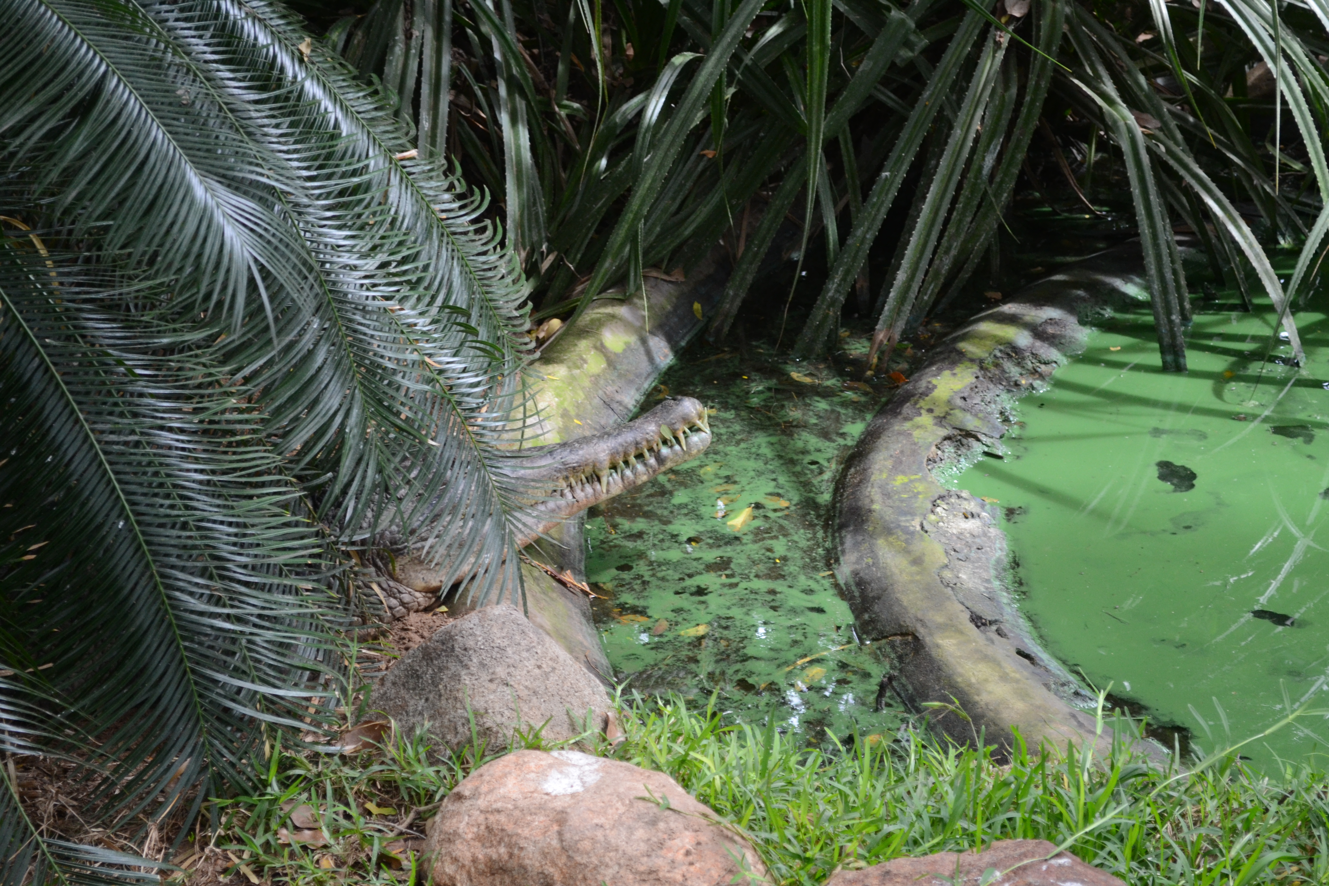 a false gharial resting at the Madras Crocodile Bank Trust